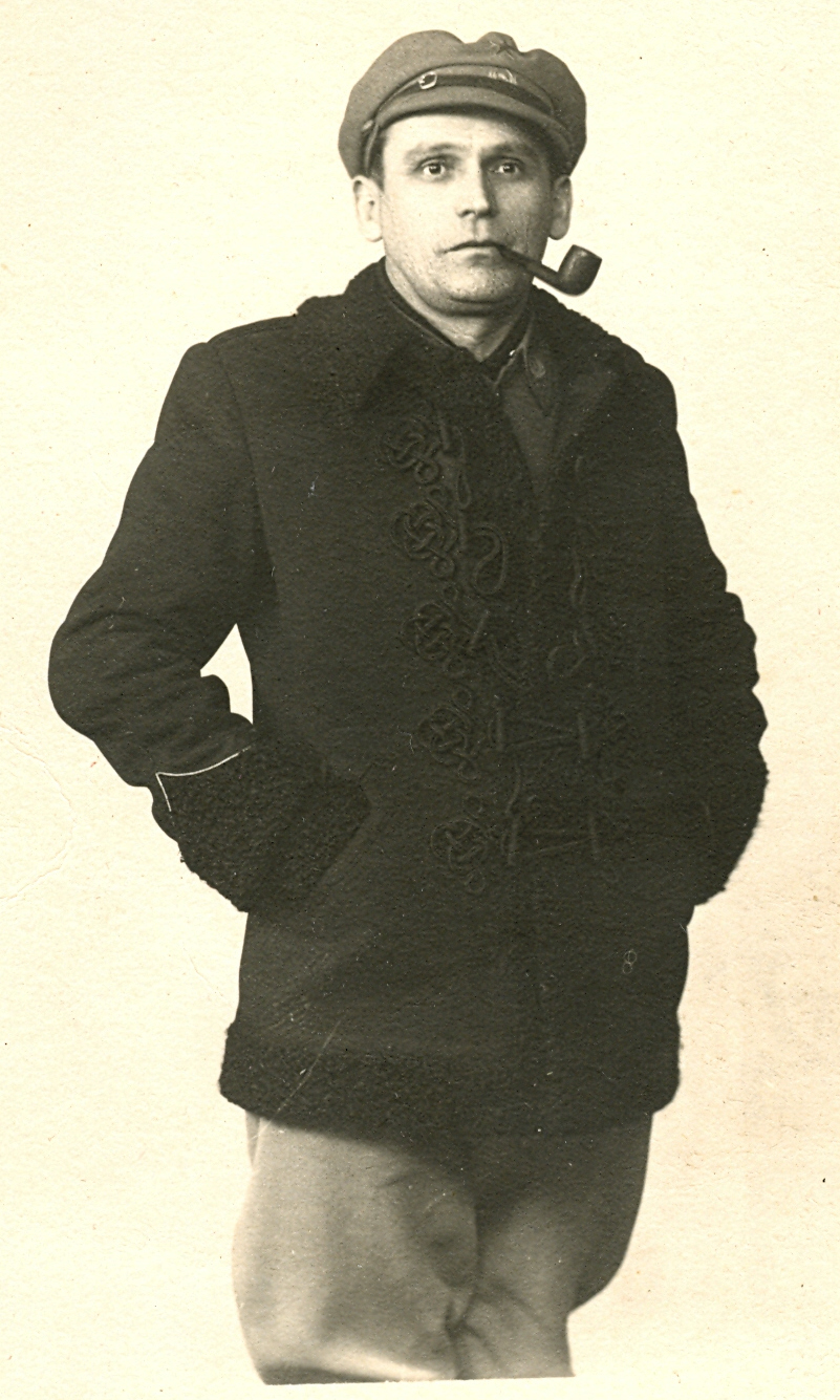 Nikola Kovačević, participant of October Revolution and volunteer from Vojvodina (Serbia) in Spanish Civil War (1936-1939) Srpski (latinica): Nikola Kovačević, učesnik Oktobarske revolucije i dobrovoljac iz Vojvodine u Španskom građanskom ratu (1936-1939)